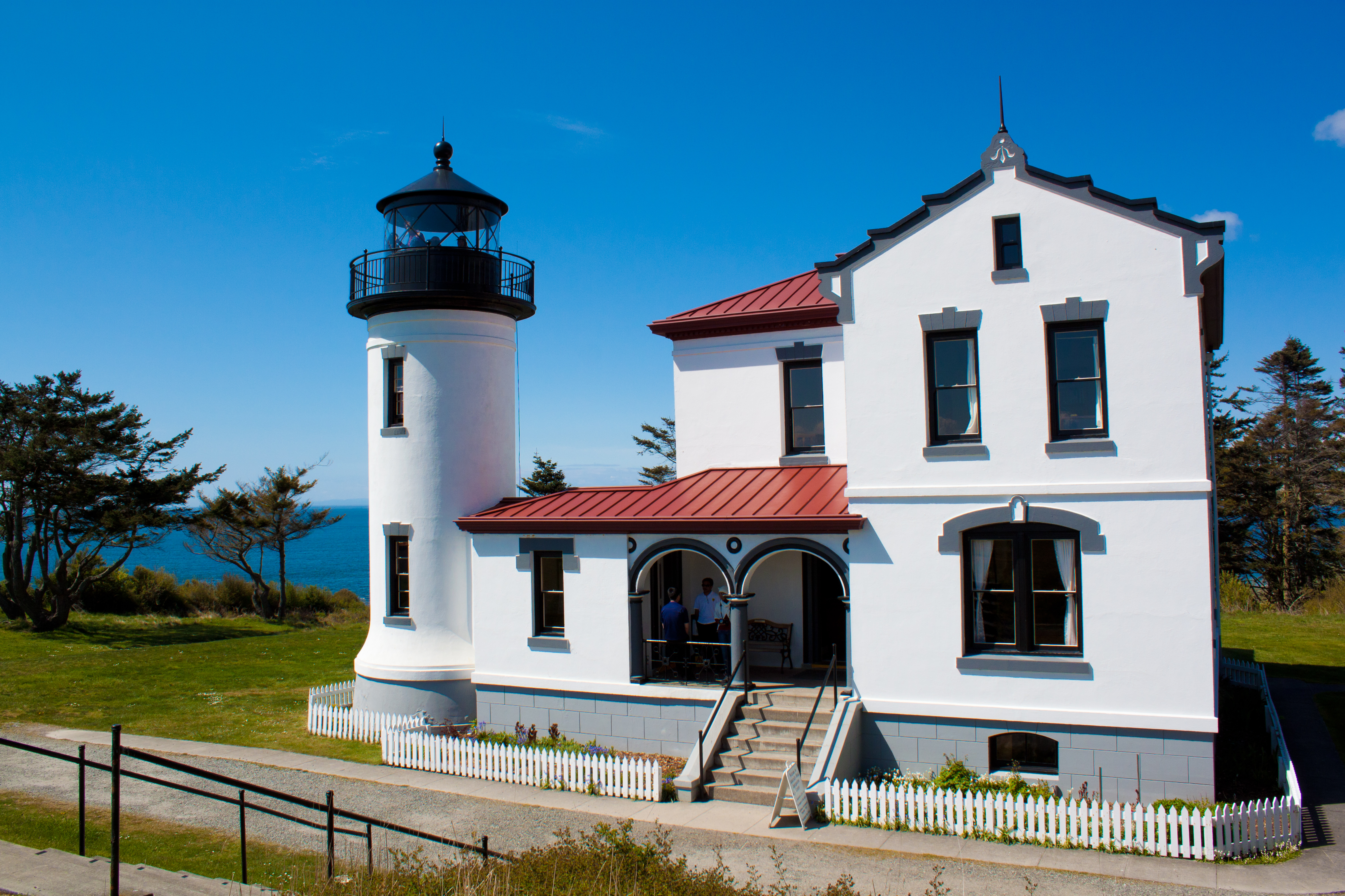 Lighthouse at Fort Casey